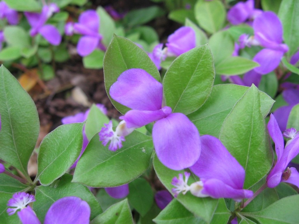 Gaywings blooming on the north end of Mackinac Island, MI